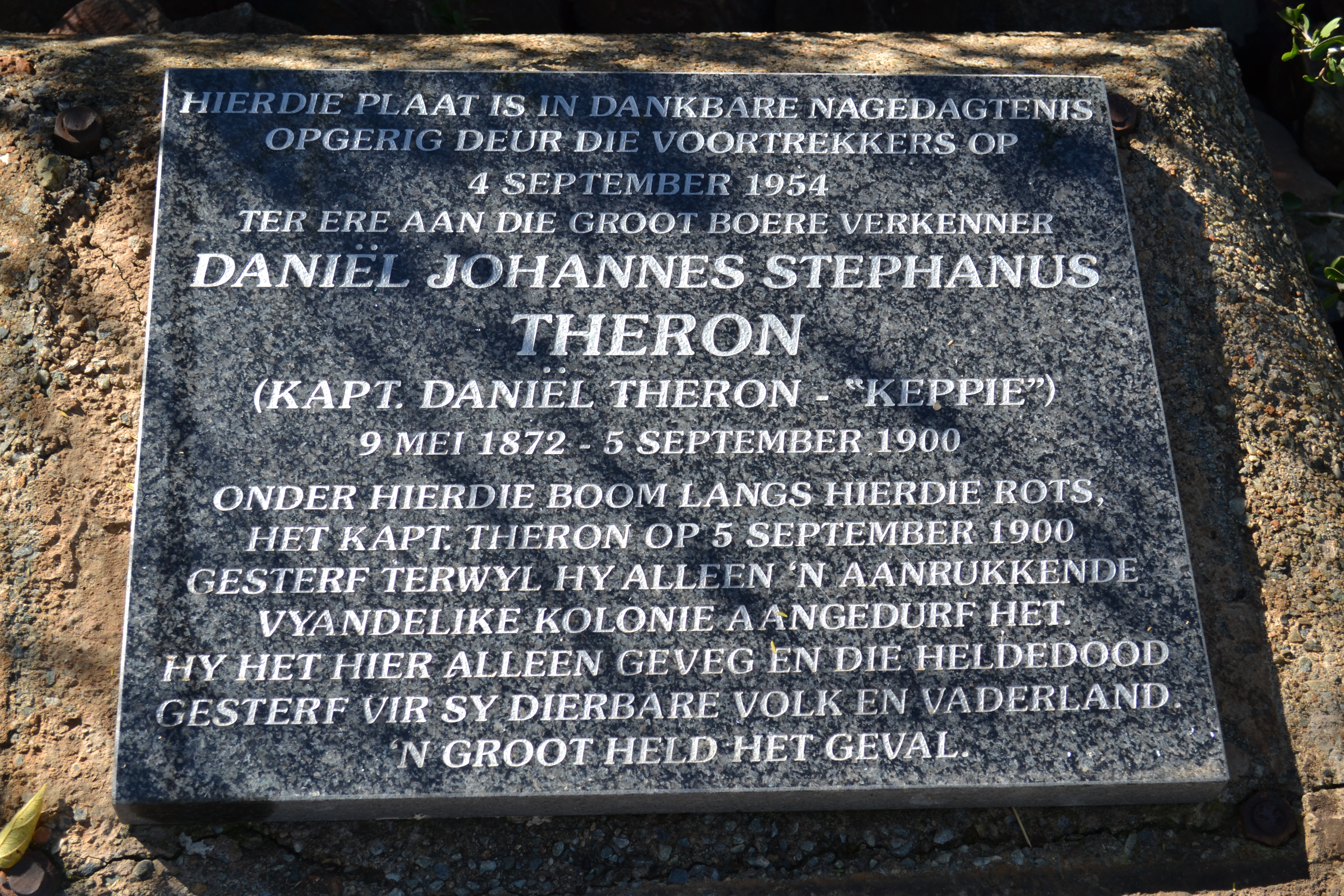 Danie Theron memorial is some 8 km west of the town of Fochville on the N12 to Potchefstroom North West South Africa This media shows a South African Protected Site with SAHRA file reference New.